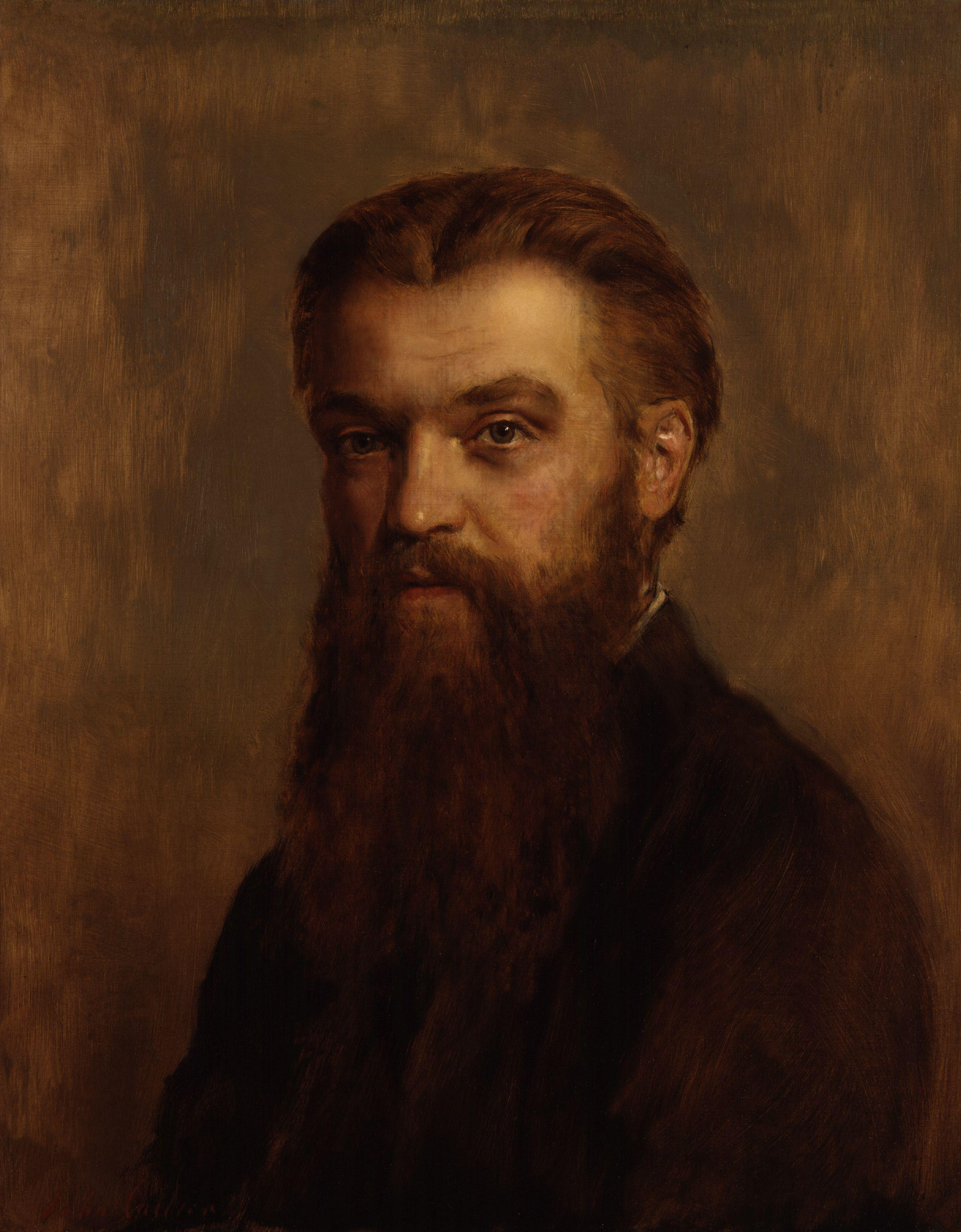 William Kingdon Clifford, by John Collier (died 1934), given to the National Portrait Gallery, London in 1899. All images in this batch have been confirmed as author died before 1939 according to the official death date listed by the NPG.